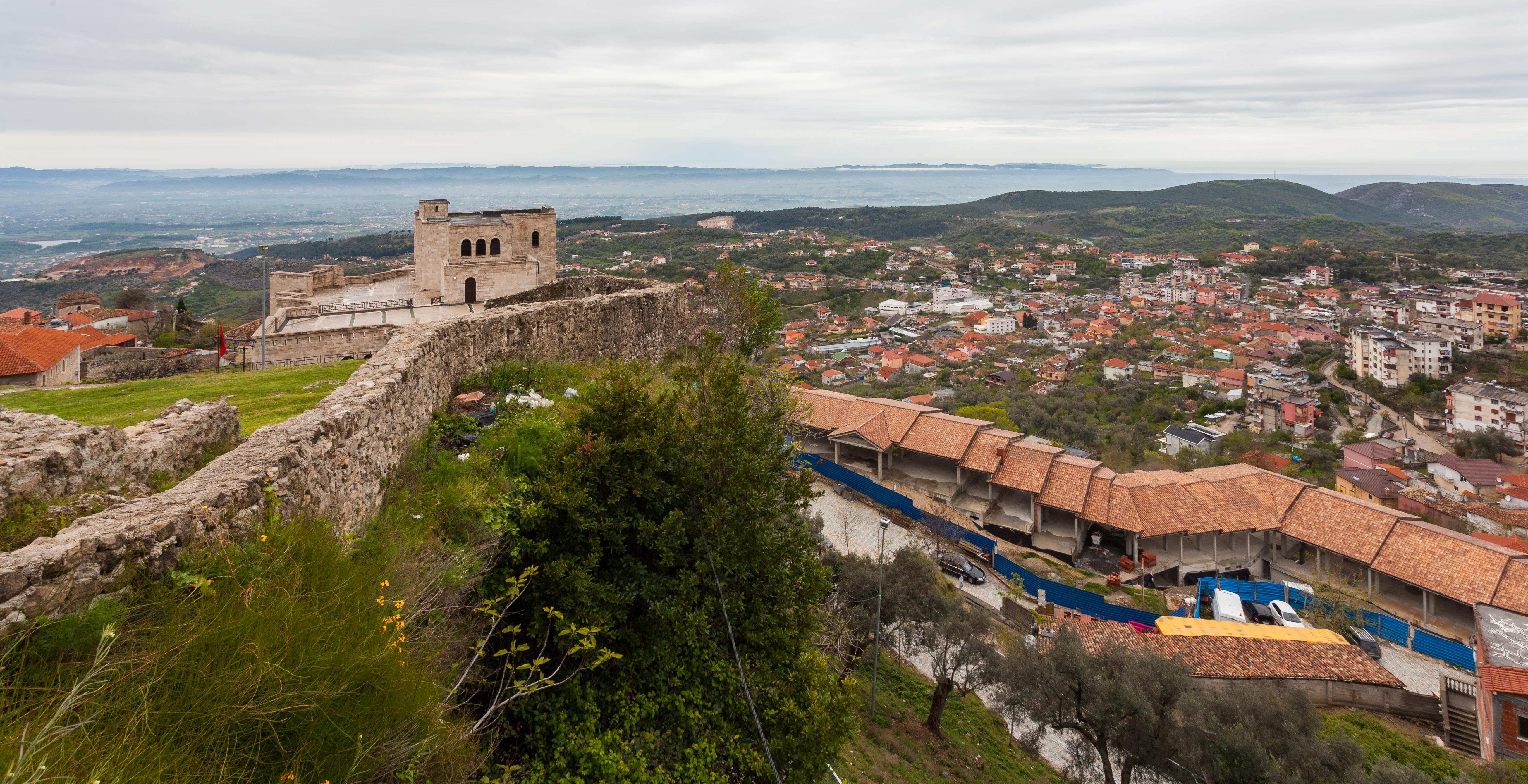 View of Kruja, Albania